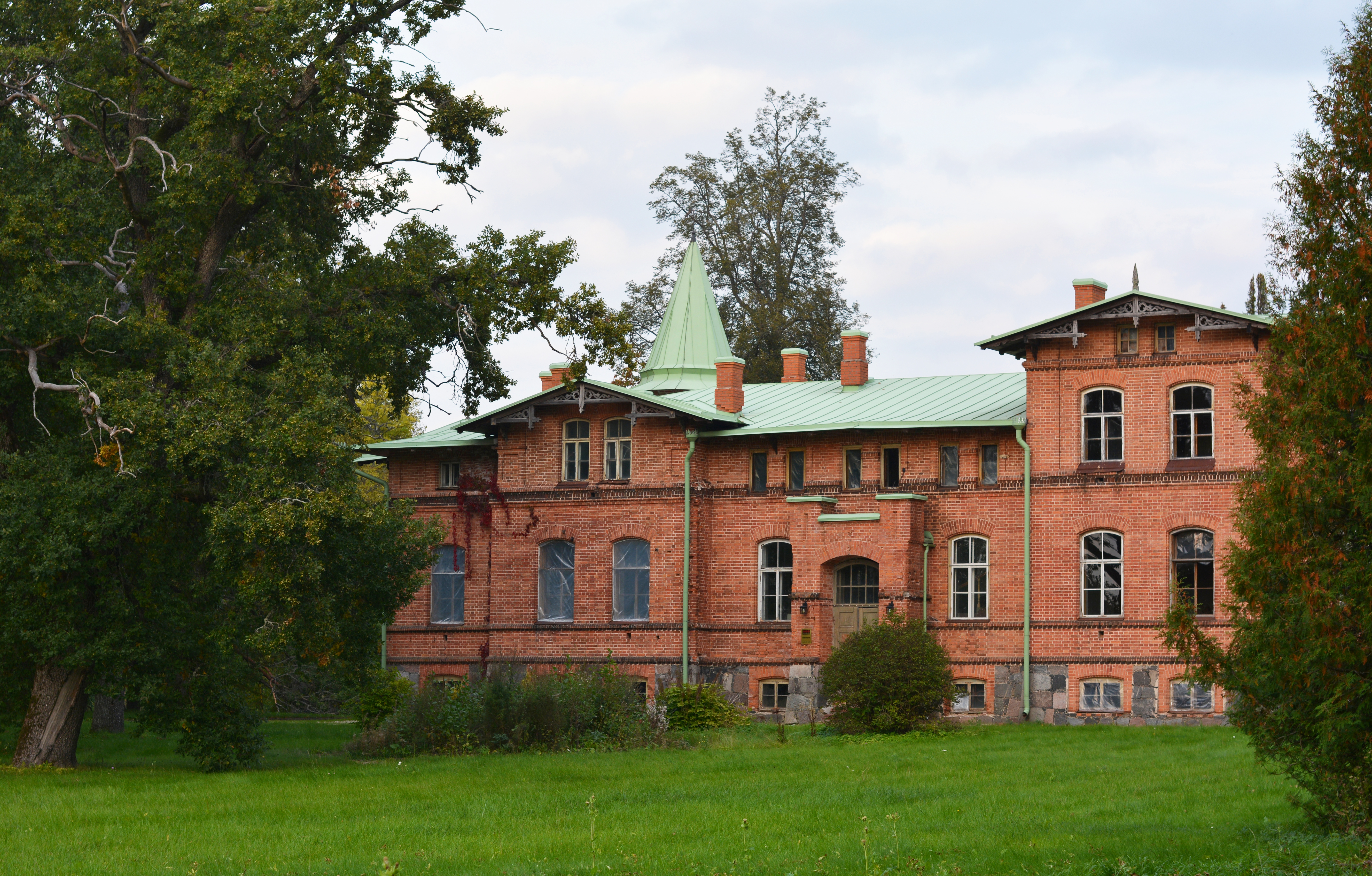 Main house of Kolu manor